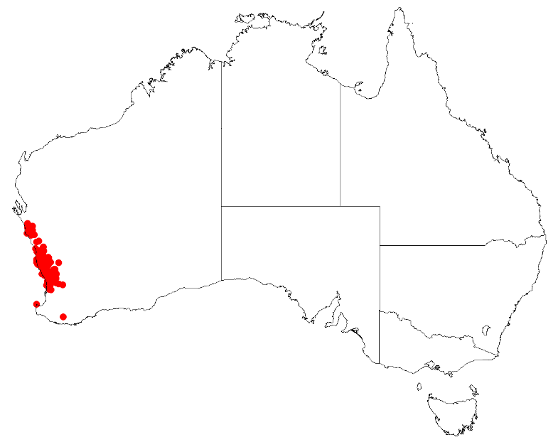 Conostylis aurea Occurrence data downloaded from Australasian Virtual Herbarium on 12 May 2017